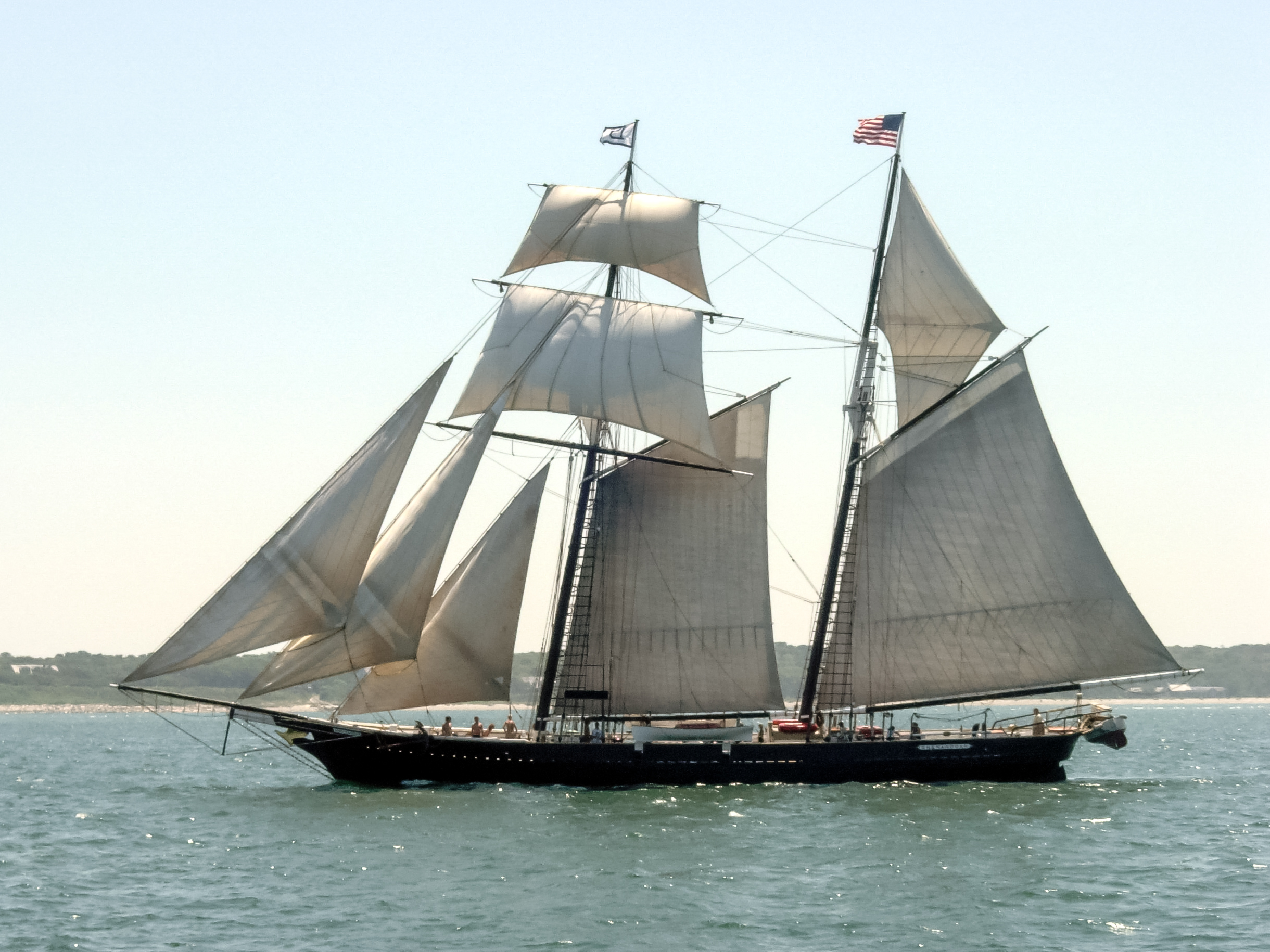 Square topsail schooner, SHENANDOAH, sailing in the waters of Nantucket Sound off Vineyard Haven on the island of Martha's Vineyard, USA, on July 20, 2005. For propulsion, this ship has sails only, no motors.